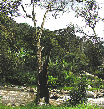 A Tree which has burnt but is still alive, by the river Gualivá.